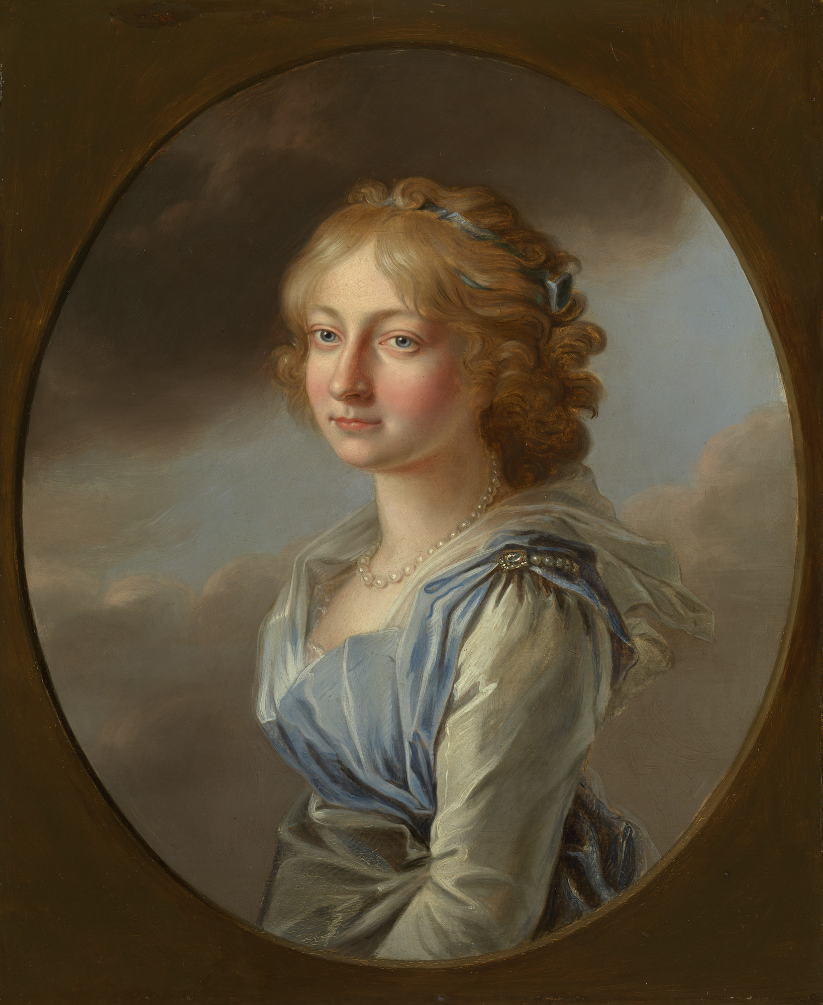 This portrait of Antoinette of Saxe-Coburg-Saalfeld is a copy after the pastel portrait by J.H. Schroeder of c.1795 which forms part of a set of Francis Anthony, Duke of Saxe-Coburg-Saalfeld, his Duchess and his children, at Schloss Callenburg, Coburg (exh. Coburg 1997, no. 1-19, repr.).